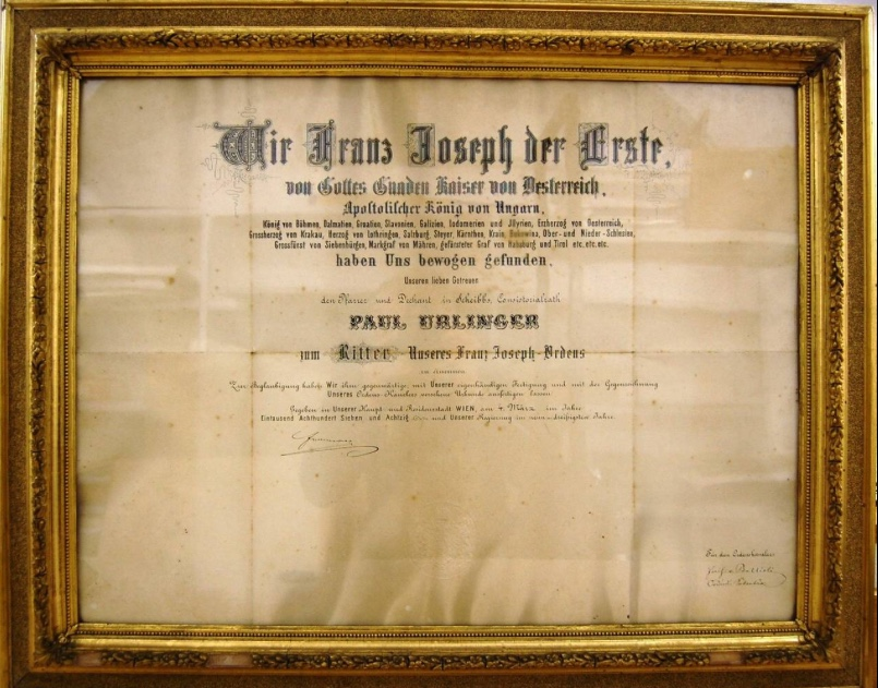 Urkunde Erhebung in Ritterstand von Urlinger durch Kaiser Franz Joseph